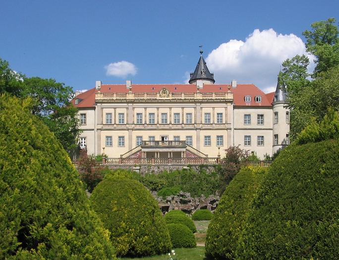 Palace Wiesenburg with garden. The palace contains remains of a castle from 12th century. Modification to a palace in 15th century, rebuilding after Thirty Years’ War until beginning 18th century. The village Wiesenburg is a municipality in the district Potsdam-Mittelmark of the German state Brandenburg and is situated in the nature park Naturpark Hoher Fläming.